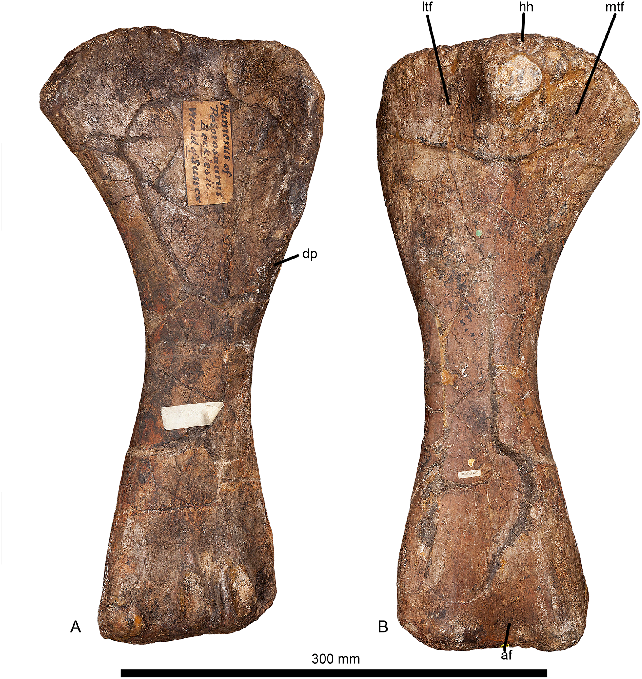 Left humerus of Haestasaurus becklesii (NHMUK R1870). A, anterior view; B, posterior view; Abbreviations: af, anconeal fossa; dp, deltopectoral crest; hh, humeral head; ltf, lateral triceps fossa; mtf, medial triceps fossa.